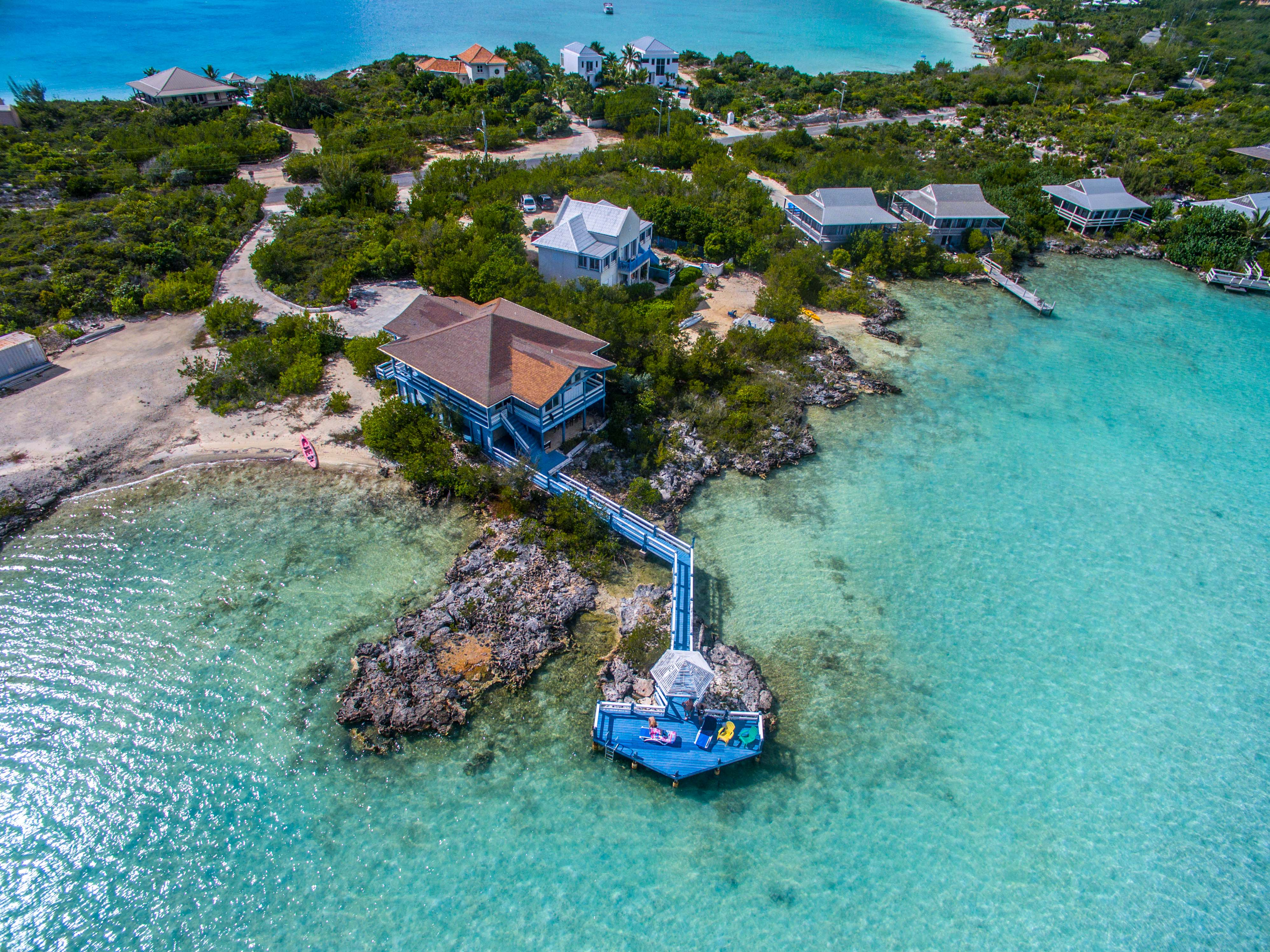 Turks and Caicos Islands